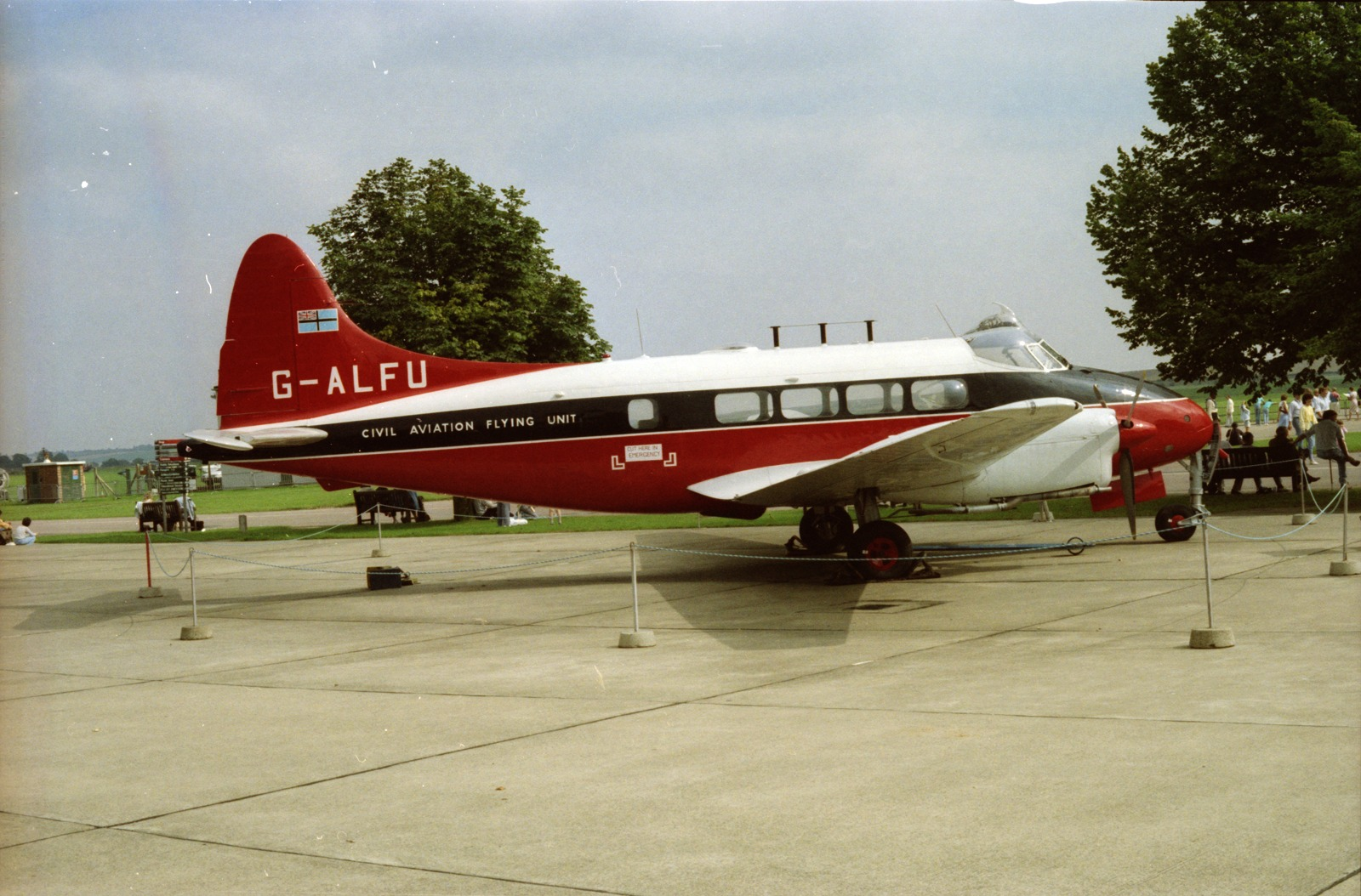 Preserved DeHavilland Dove aircraft of CAA at Duxford Aerodrome.